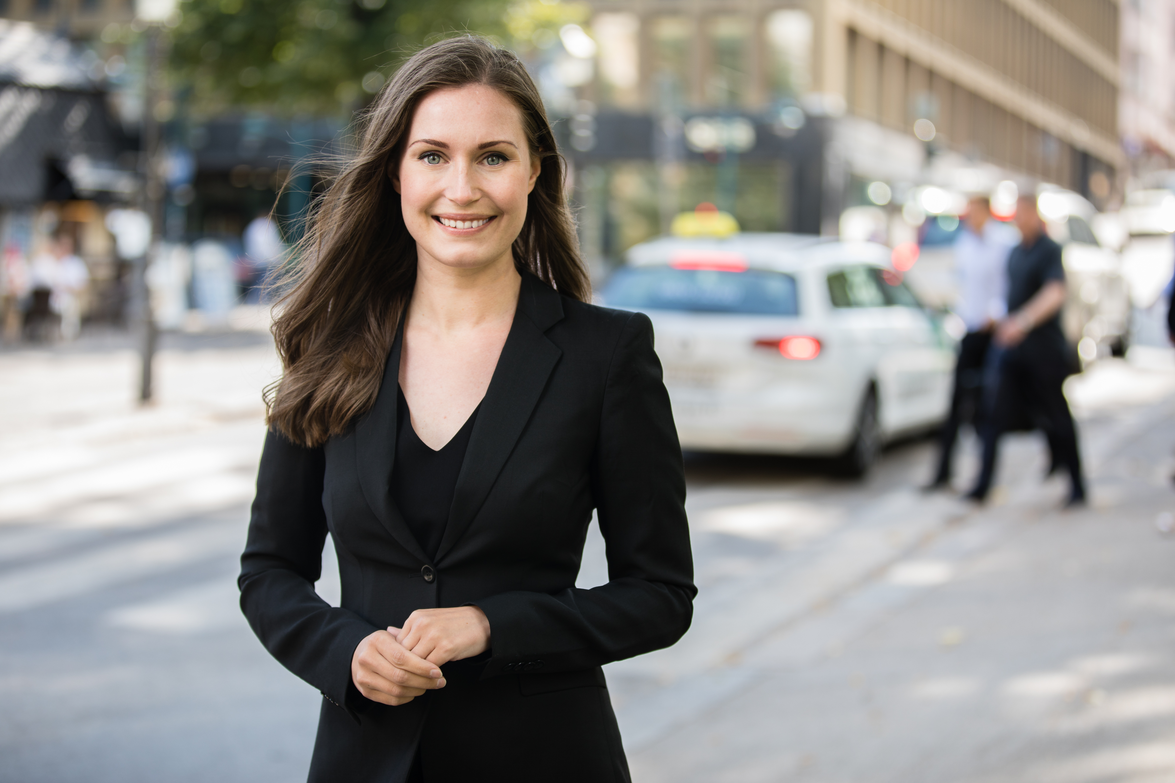 Sanna Marin in 2019